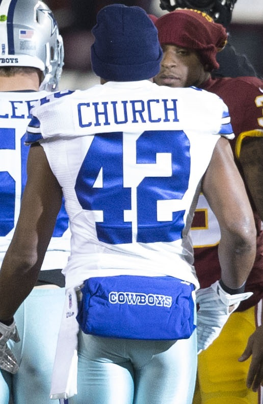 Cowboys at Redskins 12/7/15